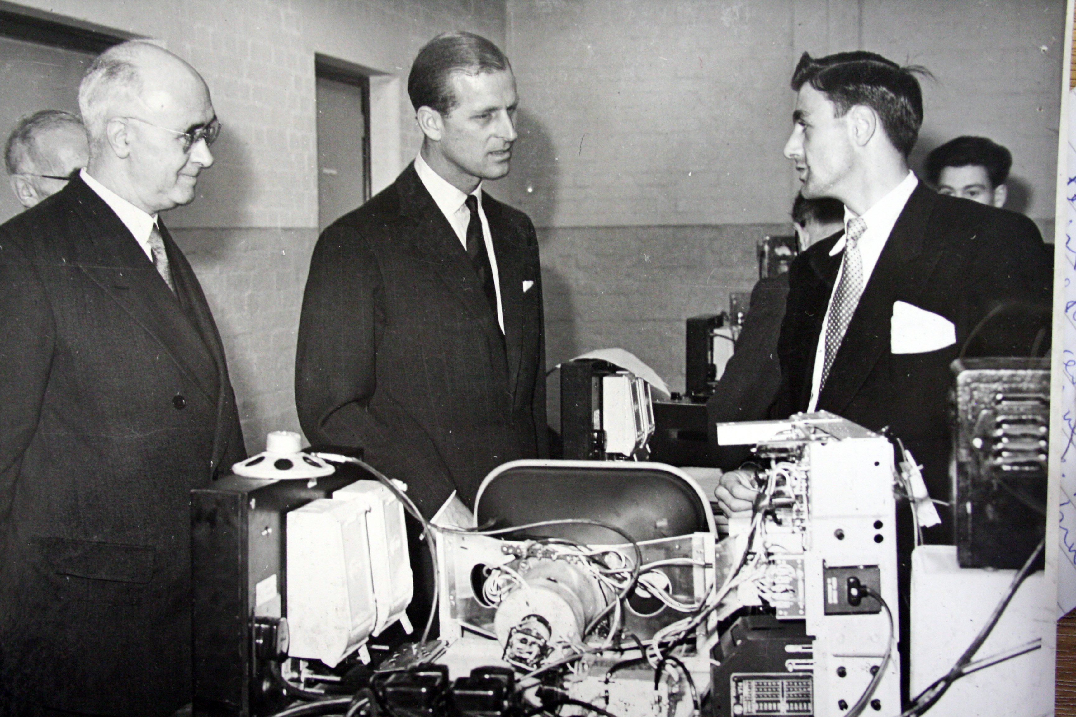 The Duke of Edinburgh meets Medway College of Technology students as he opens the college's Horsted site in 1955